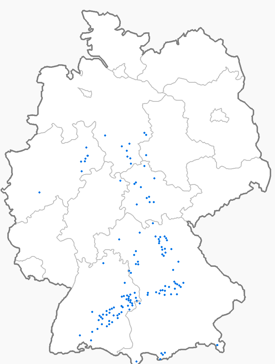 Approximate location of karst springs in Germany. The file shows karst springs are listed in the "List of karst springs in Germany" in the german Wikipedia. For questions and suggestions contact the author. State border Country border Karst spring